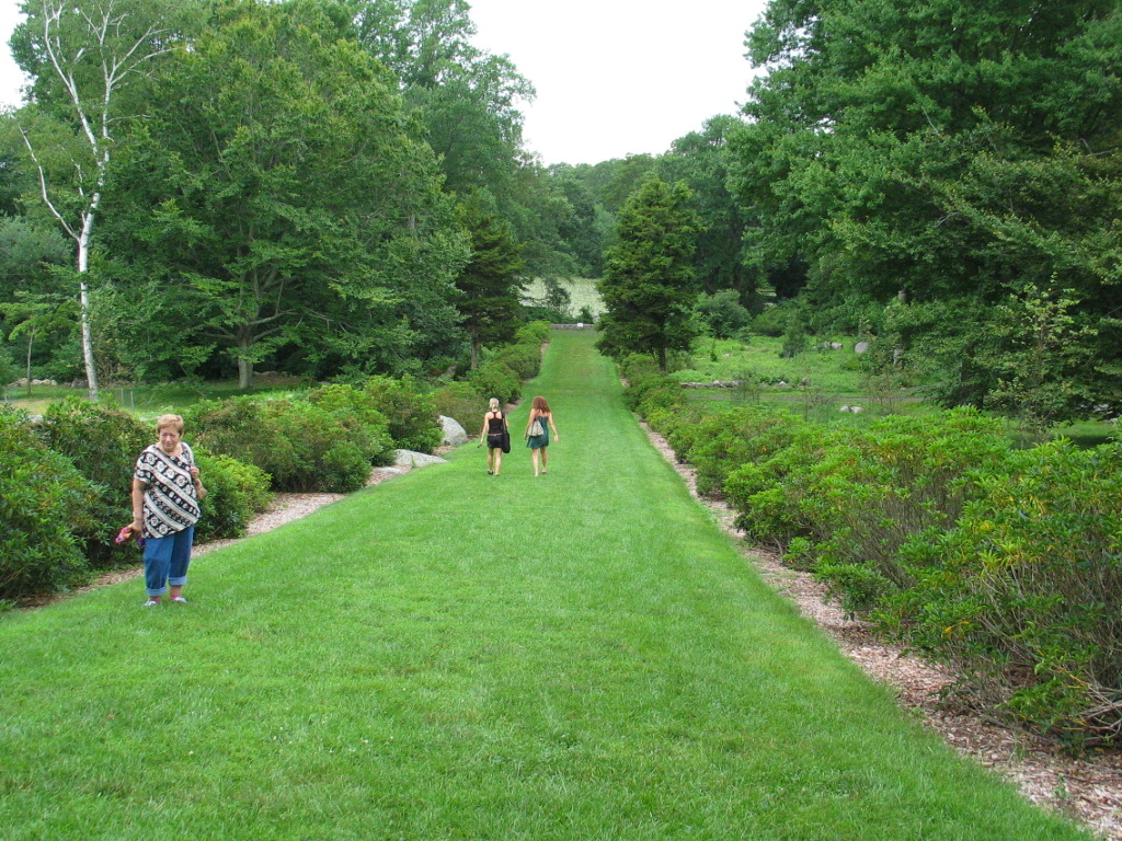 Descending from the entrance to the pond. By a ramp made out of grass.